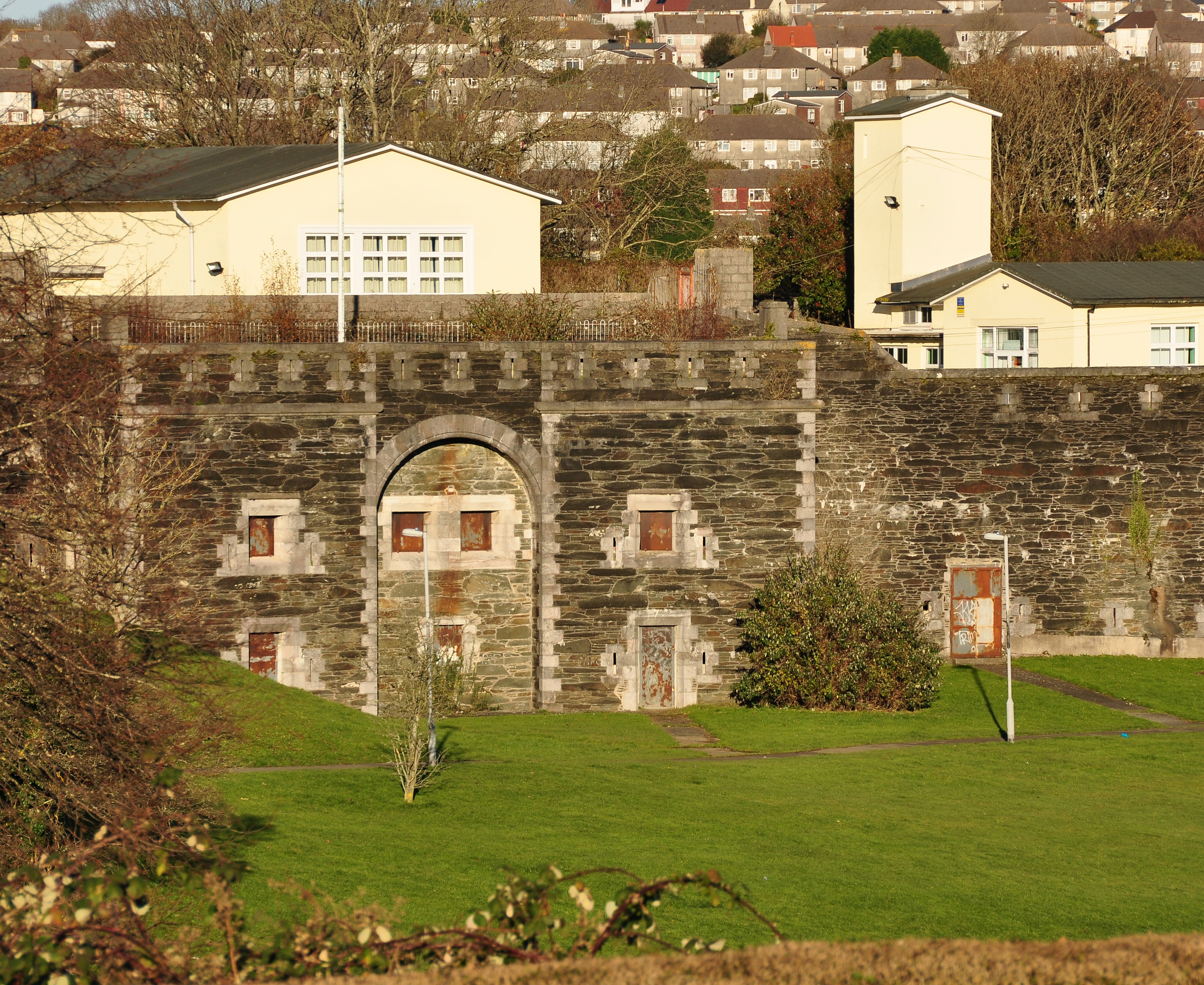 Knowle Battery, in Plymouth, now housing a primary school.